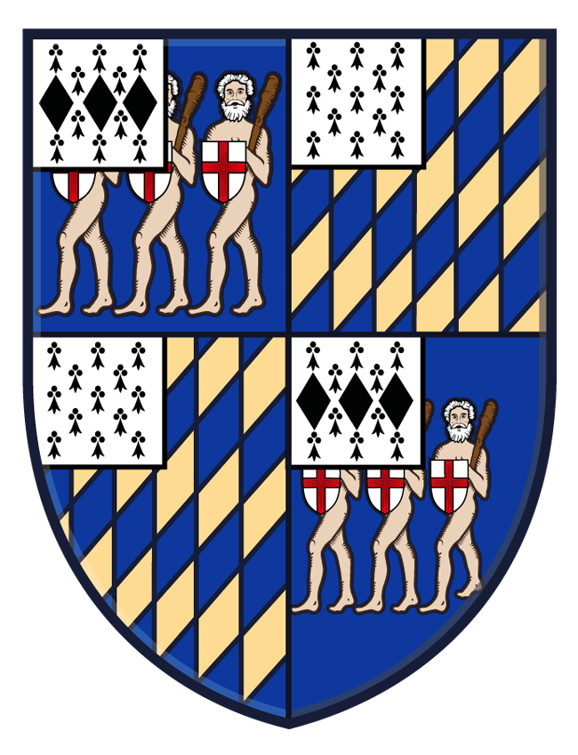 Coat of arms of The Rt Hon The Earl of Halifax, K.St.J. JP DL Arms: Quarterly: 1st and 4th, Azure three Naked Savages ambulant in fess proper in the dexter hand of each a Shield Argent charged with a Cross Gules and in the sinister a Club resting on the shoulder also proper on a Canton Ermine three Lozenges conjoined in fess Sable (Wood); 2nd and 3rd, Paly bendy Or and Azure a Canton Ermine (Buck)